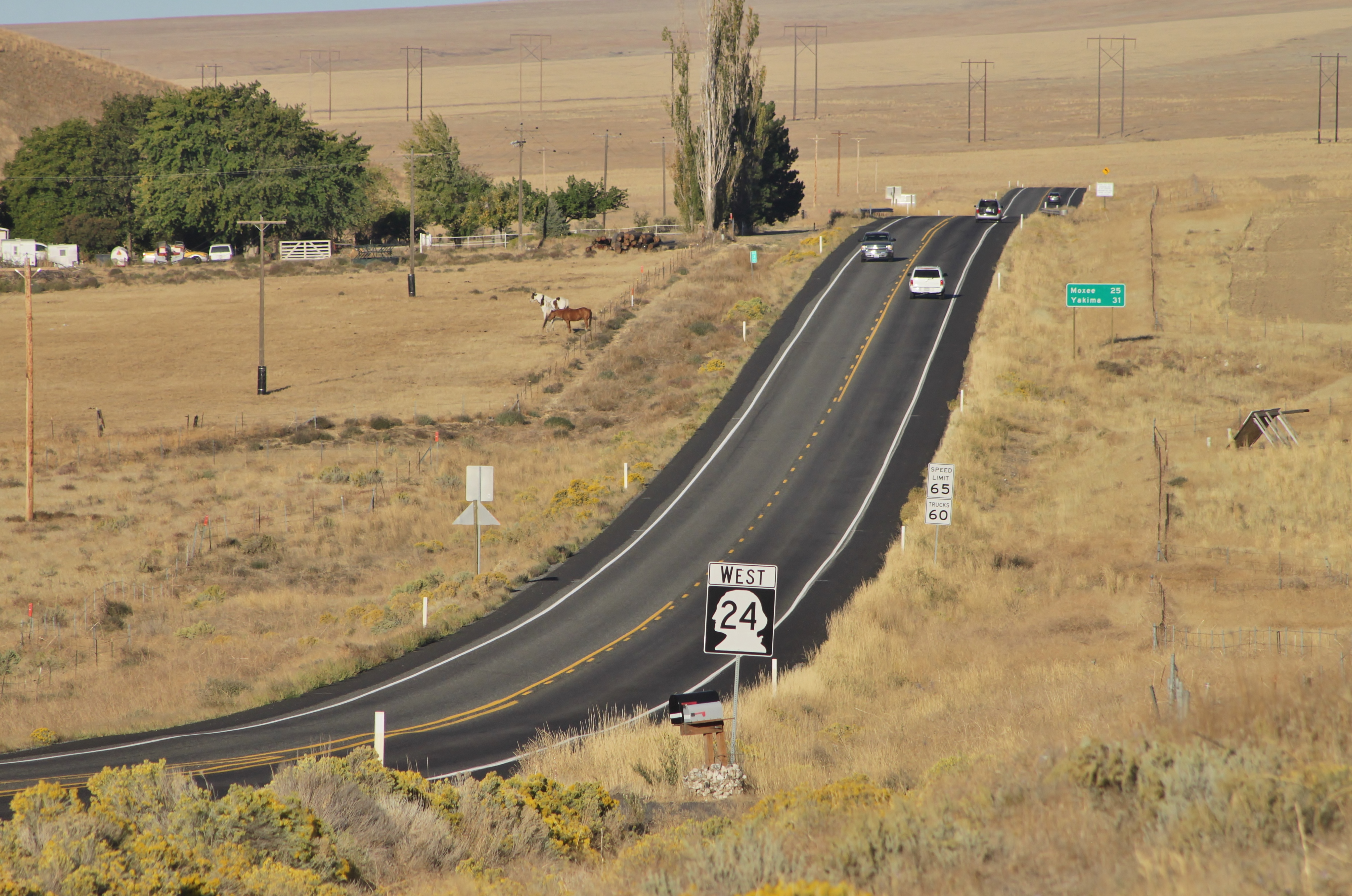 Looking westbound on State Route 24 from its junction with State Route 241 at the Silver Dollar Cafe west of the Hanford Reservation.